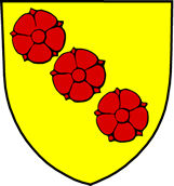 Coat of arms "Tre Rosor" Sweden